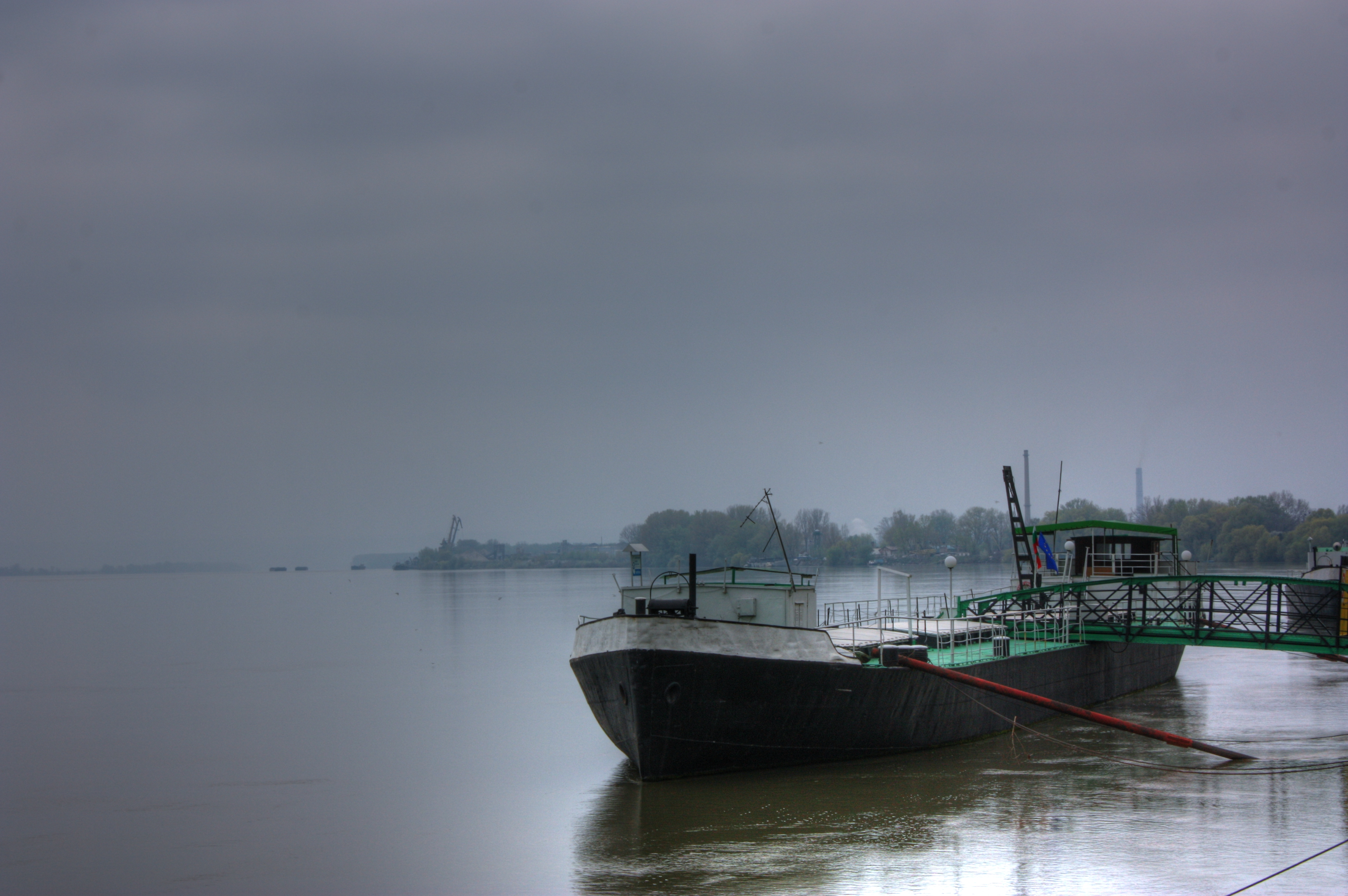 The following is the author's description of the photograph quoted directly from the photograph's Flickr page. "The Blue Danube... Photo from the river side at the Bulgarian city Vidin... The Blue Danube... "